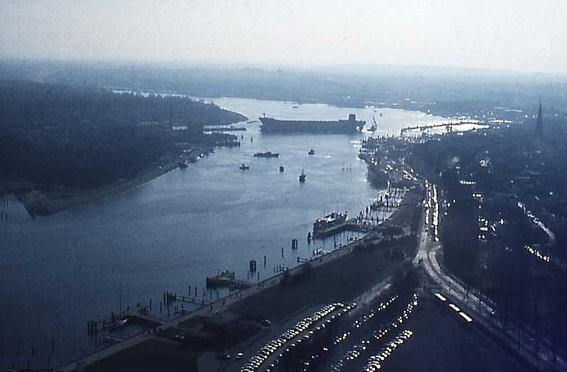 Schlichting Shipyard in Lübeck-Travemünde, launched from motor ship Sterna on the river Trave in October 1982